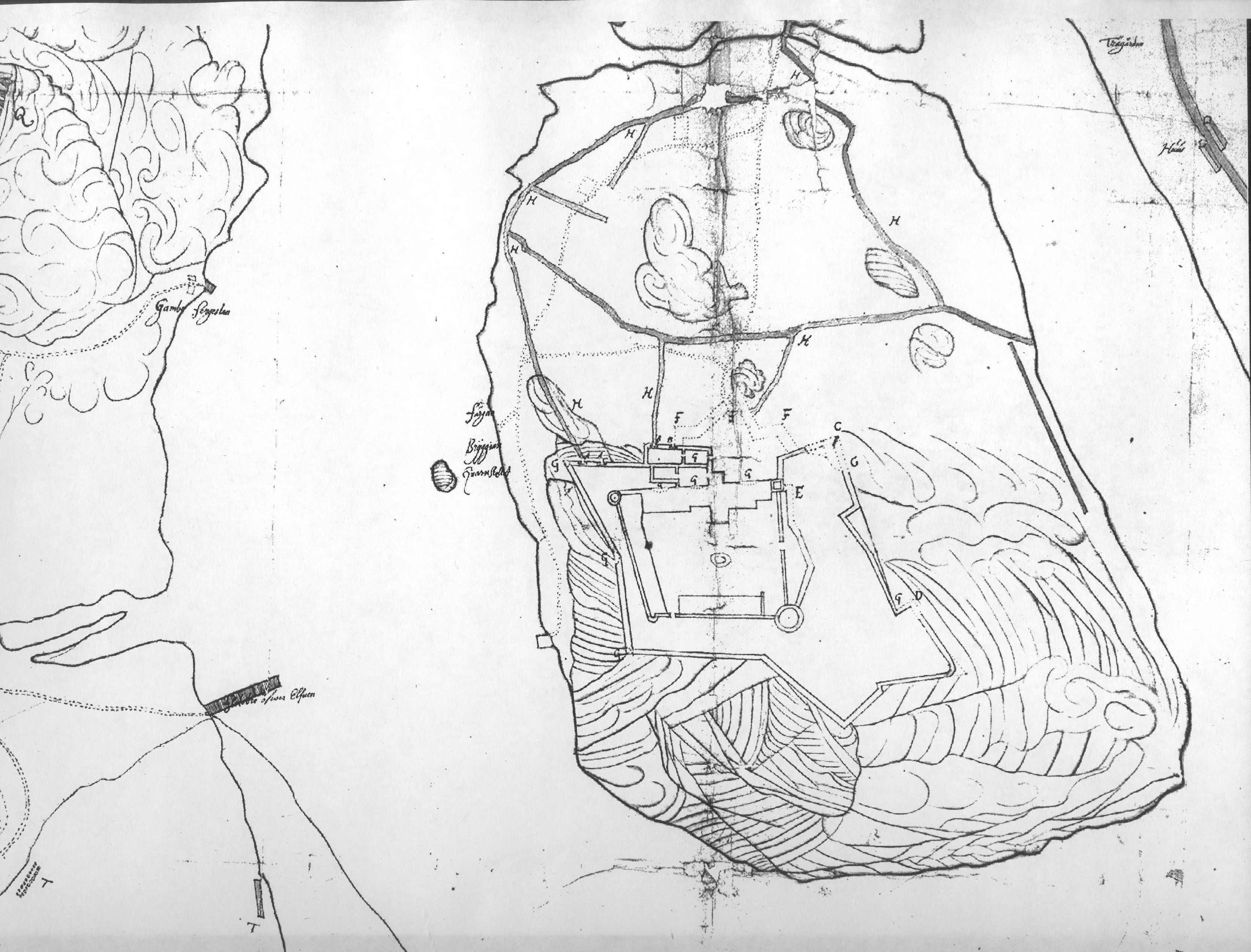 Detail of a swedish map dated 31 july 1678 showing the damages on the fortress Bohus after the just ended siege. A and B Holes in the wall caused by explosive charges. C Severe damage on the bastion Nedre Platt caused by explosive chages. F Tenaille completely destroyed by explosive charges. G Holes in the wall caused by gunfire. H Danish-norwegian trenches. Q One of the danish-norwegian gunbatteries placed on the island Hisingen. T Danish-norwegian trenches on the island Hisingen.